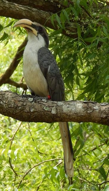 Ocyceros gingalensis by Yohombu Thamithage at Mihintale